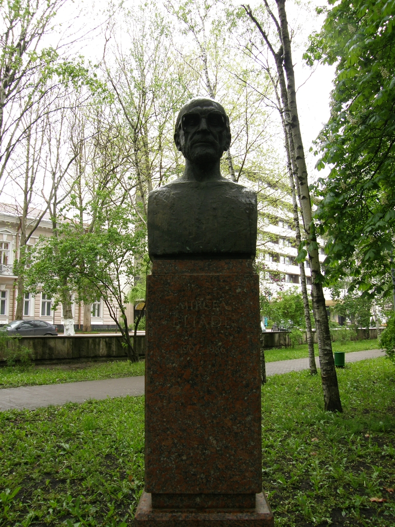 Mircea Eliade (1907-1986) The "Alley of the Classics"